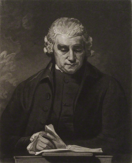 published by John Samuel Murray, after George Romney mezzotint, published March 1816 (1796) 10 1/8 in. x 7 1/4 in. (258 mm x 184 mm) paper size Given by Sir Herbert Henry Raphael, 1st Bt, 1916 Reference Collection NPG D20183